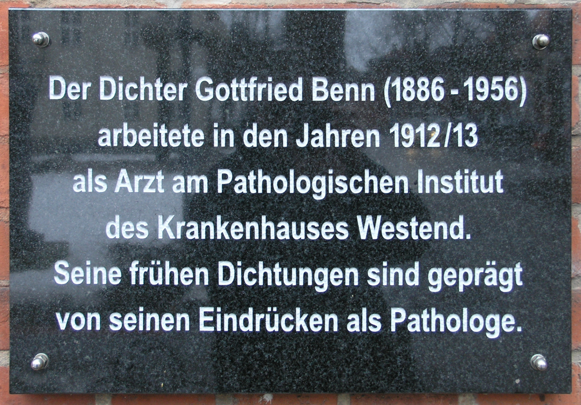 Memorial plaque, Gottfried Benn, Spandauer Damm 130, Berlin-Westend, Germany